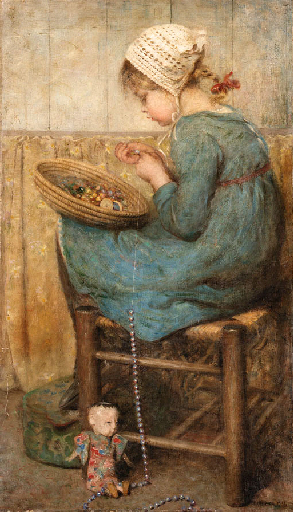 Stringing the Beads, signed and dated 'S.McGregor. 1913.', oil on canvas 40 x 23 in. (101.6 x 58.4 cm.)